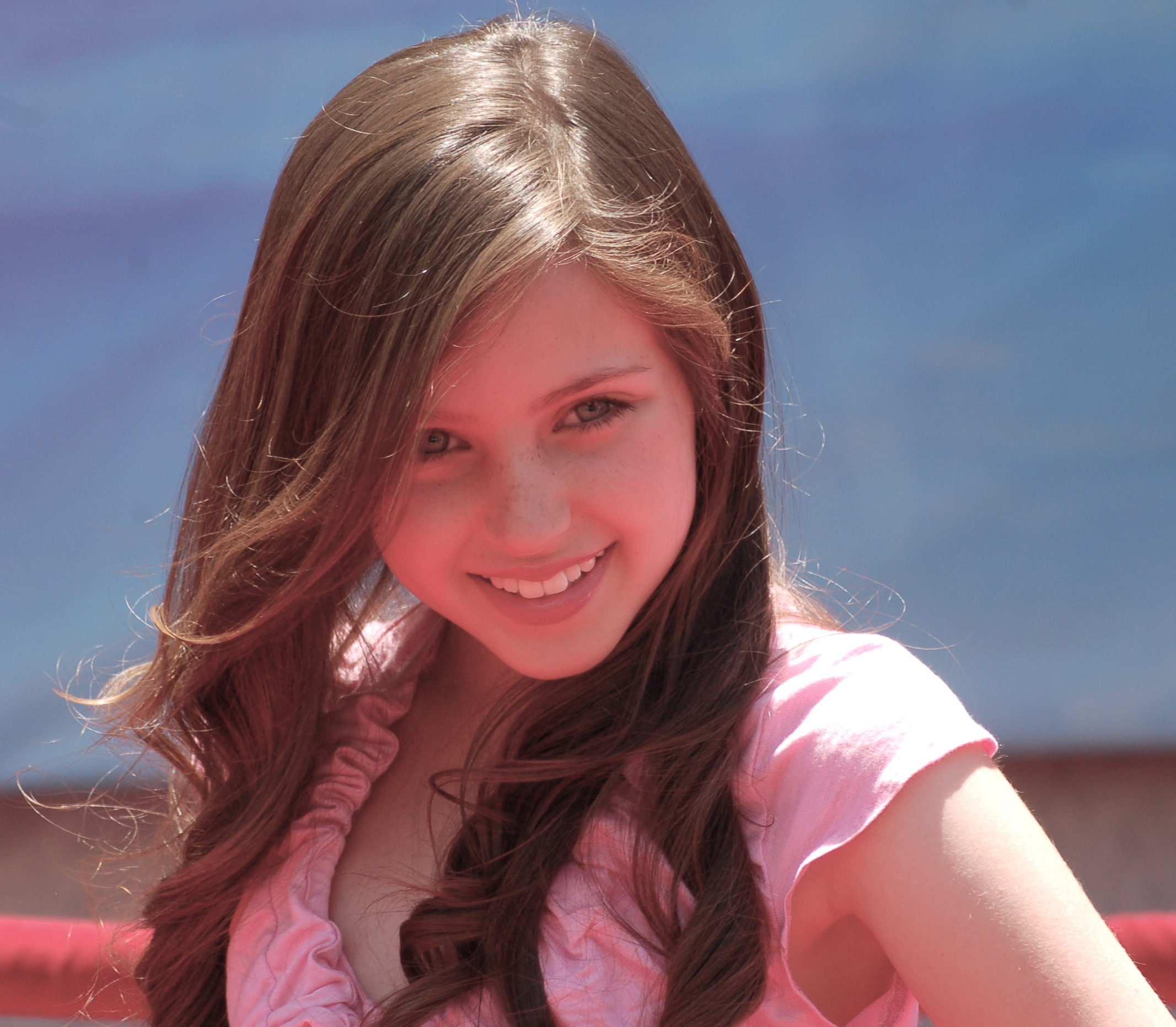 Ryan Newman at the premiere for Earth